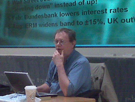 Professor Dr. Harry Cleaver delivering a lecture to Eco 357L at the University of Texas at Austin